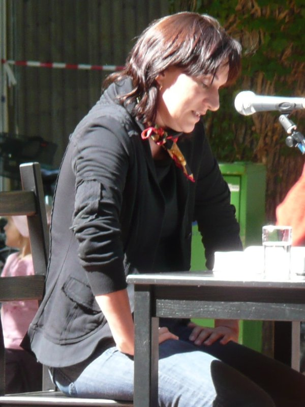 Terézia Mora at the Erlanger Poetenfest 2009